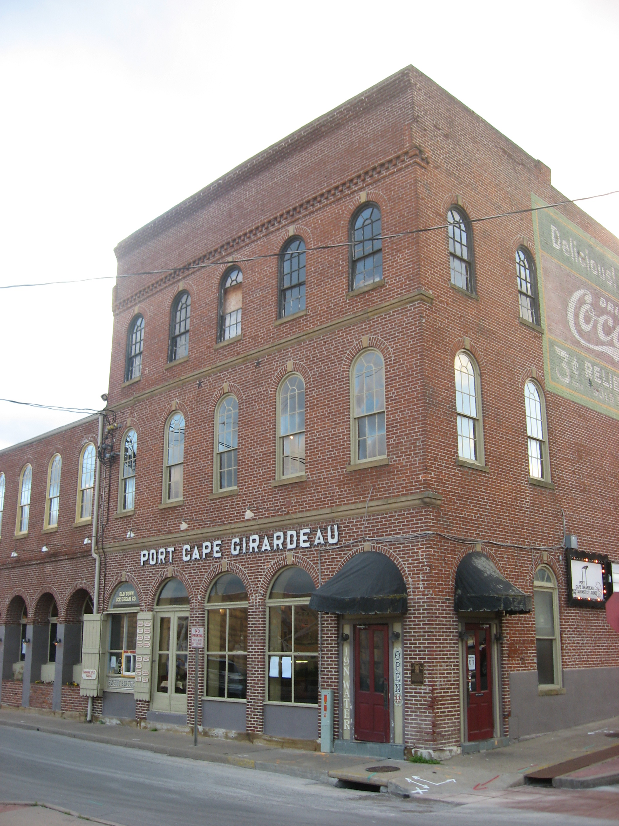 Building at 19 N. Water Street in Cape Girardeau, Missouri, United States. It and its neighbors are part of the Warehouse Row Historic District, a historic district that is listed on the National Register of Historic Places.